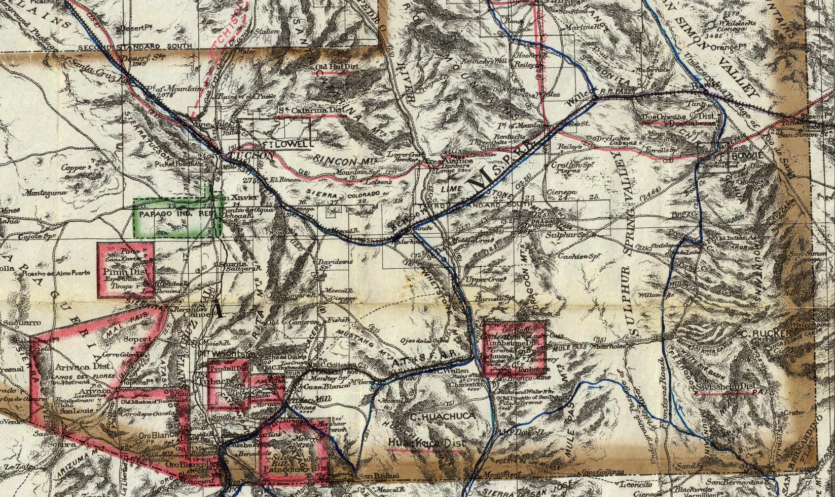 Map of southeastern Cochise County, including Tucson and Tombstone, in 1880.